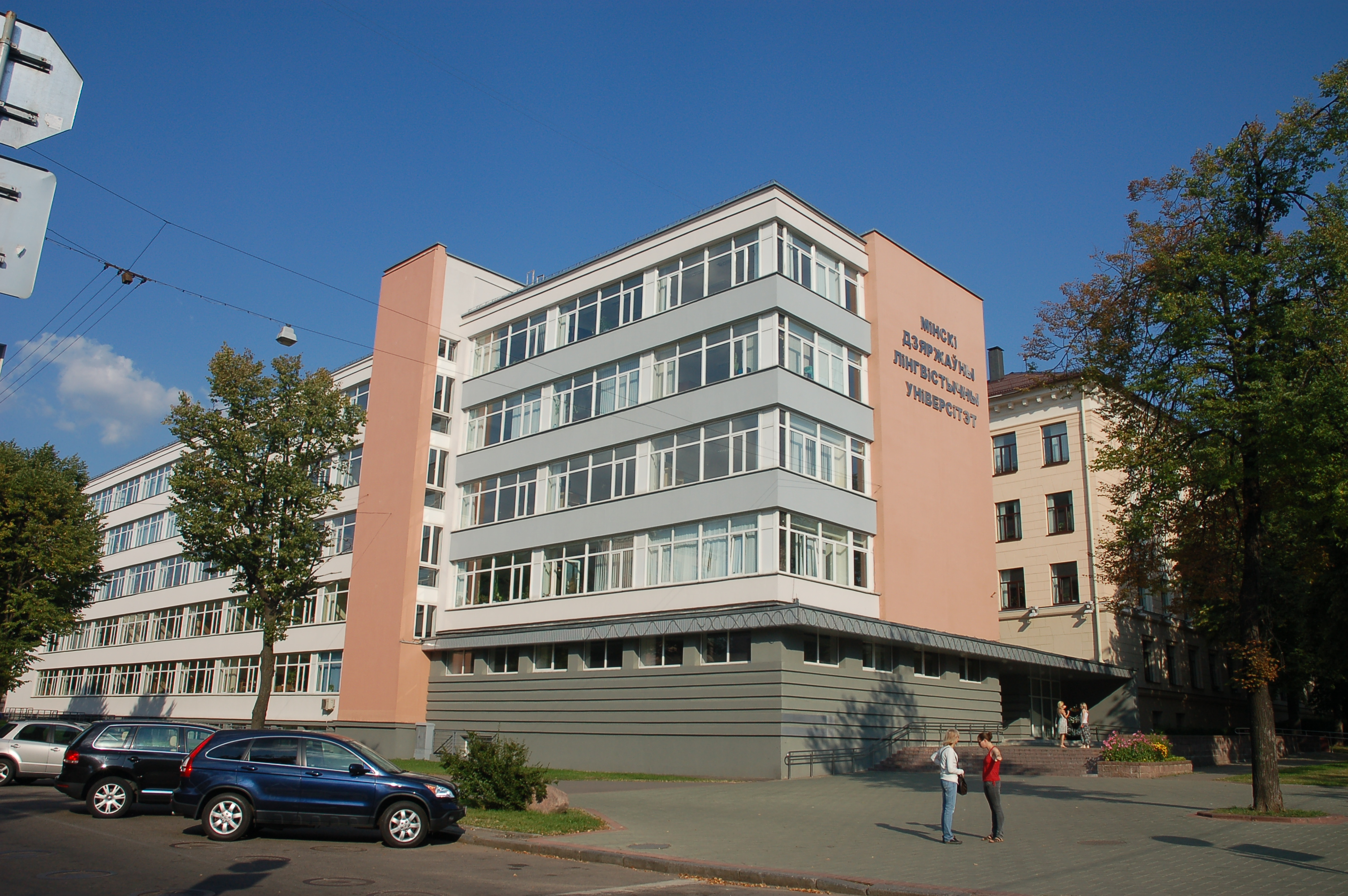 Minsk, 21 Zakharava Street